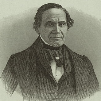 Auguste Davezac, U.S. Chargé d'affaires in The Netherlands